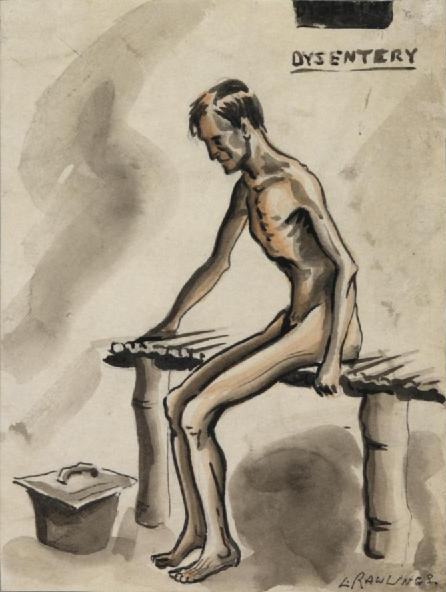 Dysentery image: a naked and emaciated prisoner-of-war sits on the edge of a bamboo bed with a metal bowl covered with a rectangular lid by his feet.